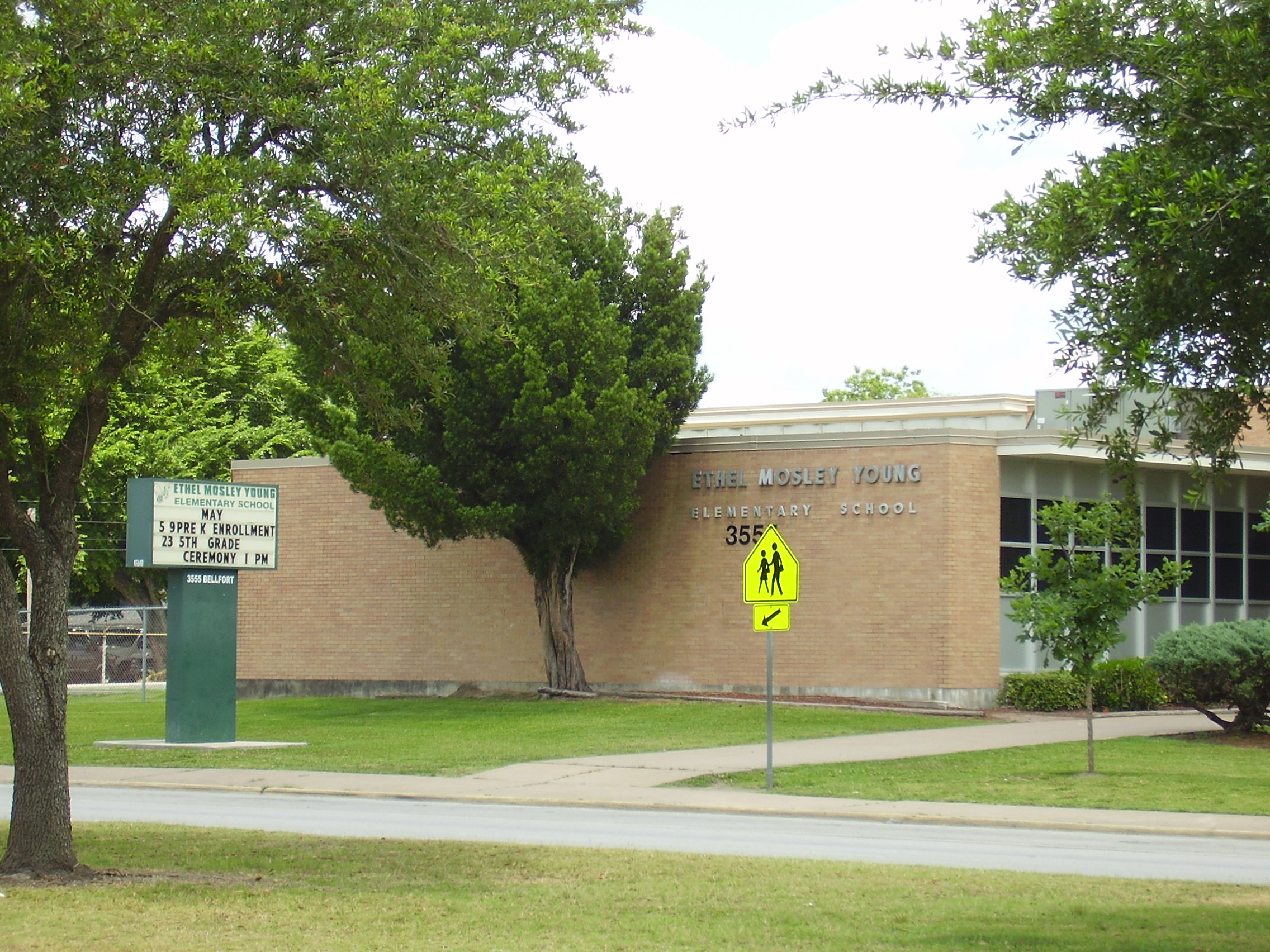 Ethel Mosley Young Elementary School in Houston